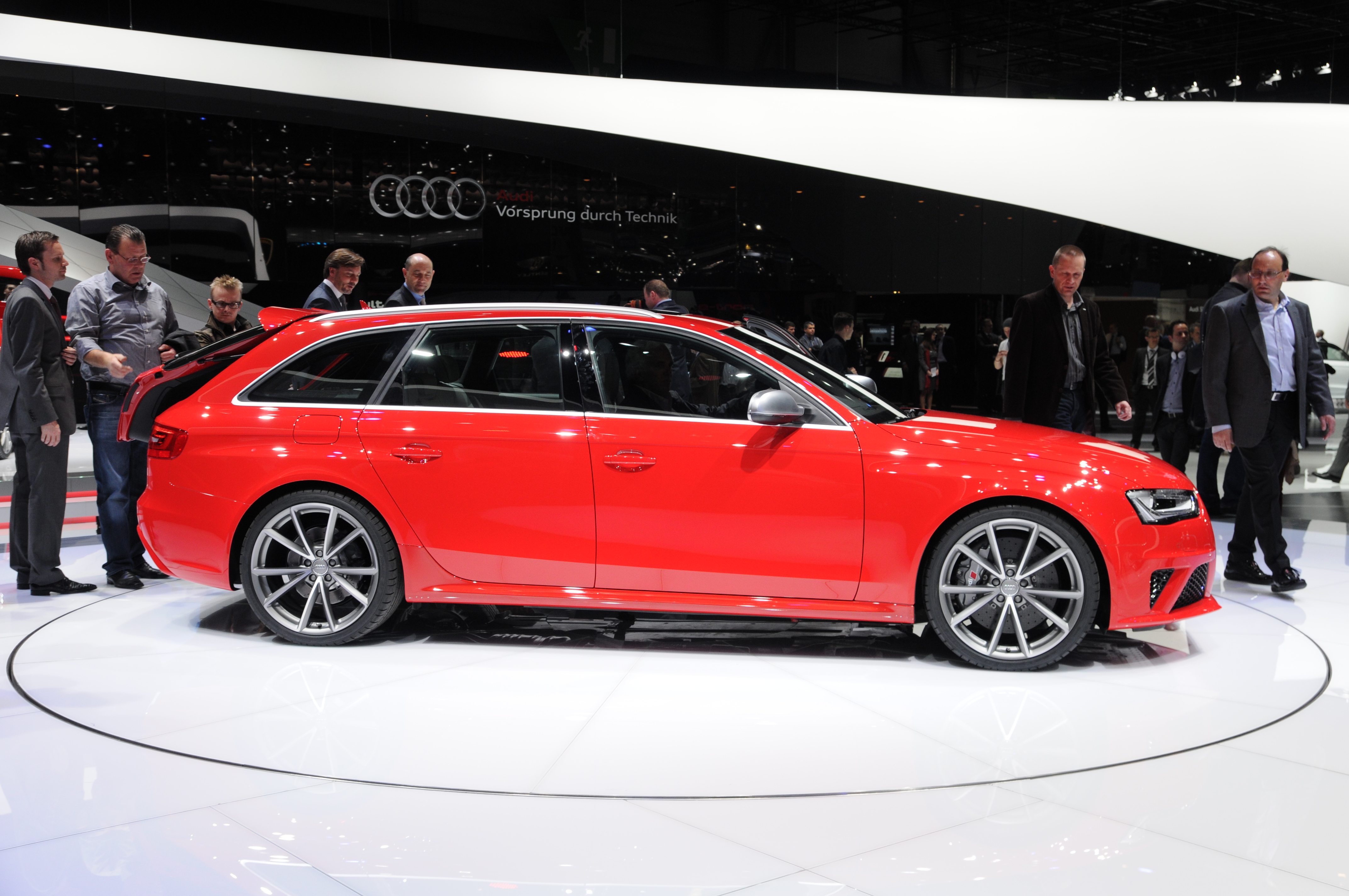 Geneva Motor Show 2012 (photos taken on the second press day)